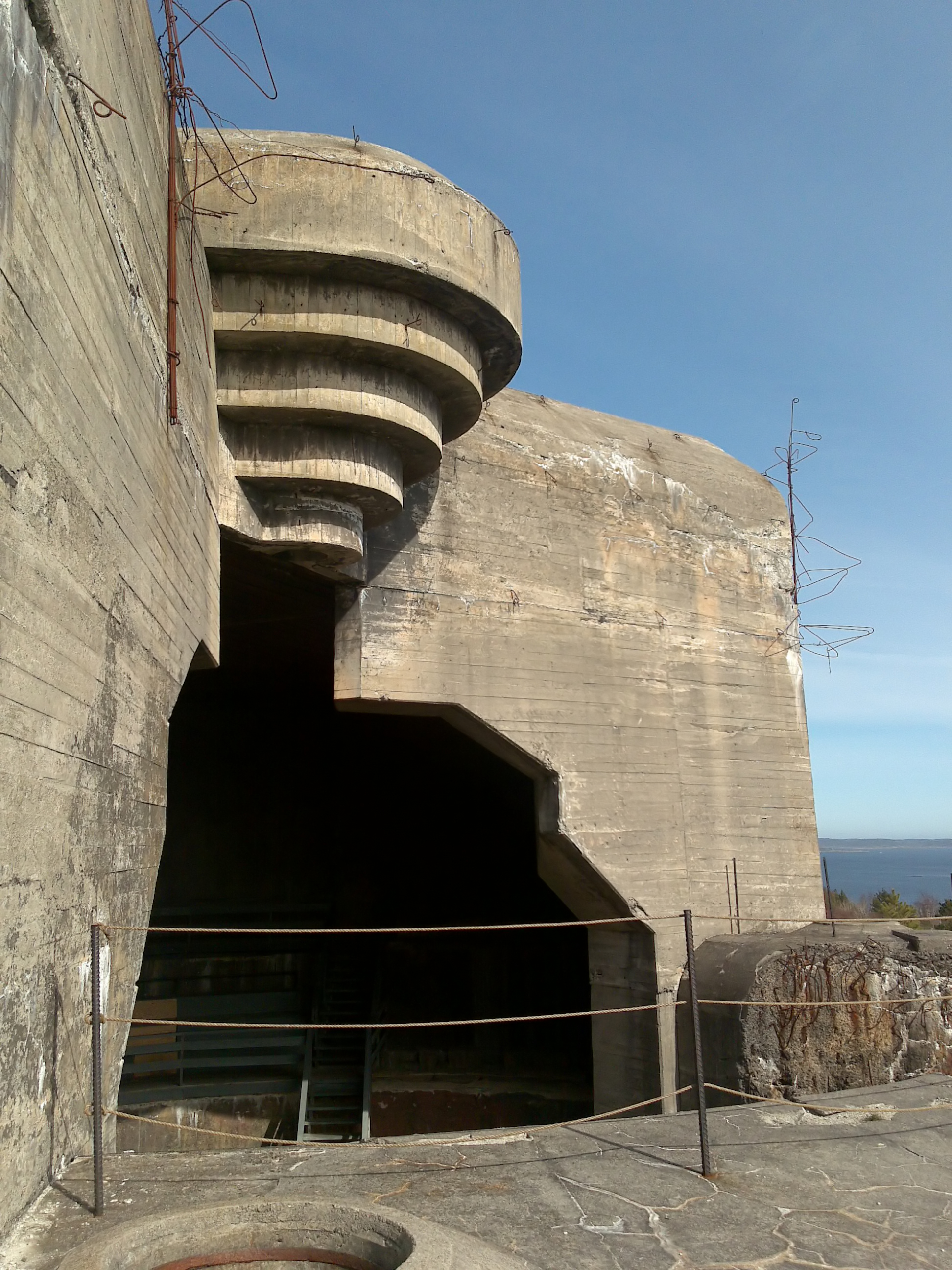 Batteri Vara (ww ii), west of Kristiansand, Norway